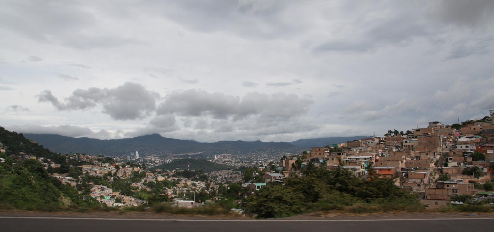 Skyline urban surroundings, Tegucigalpa, Central America.